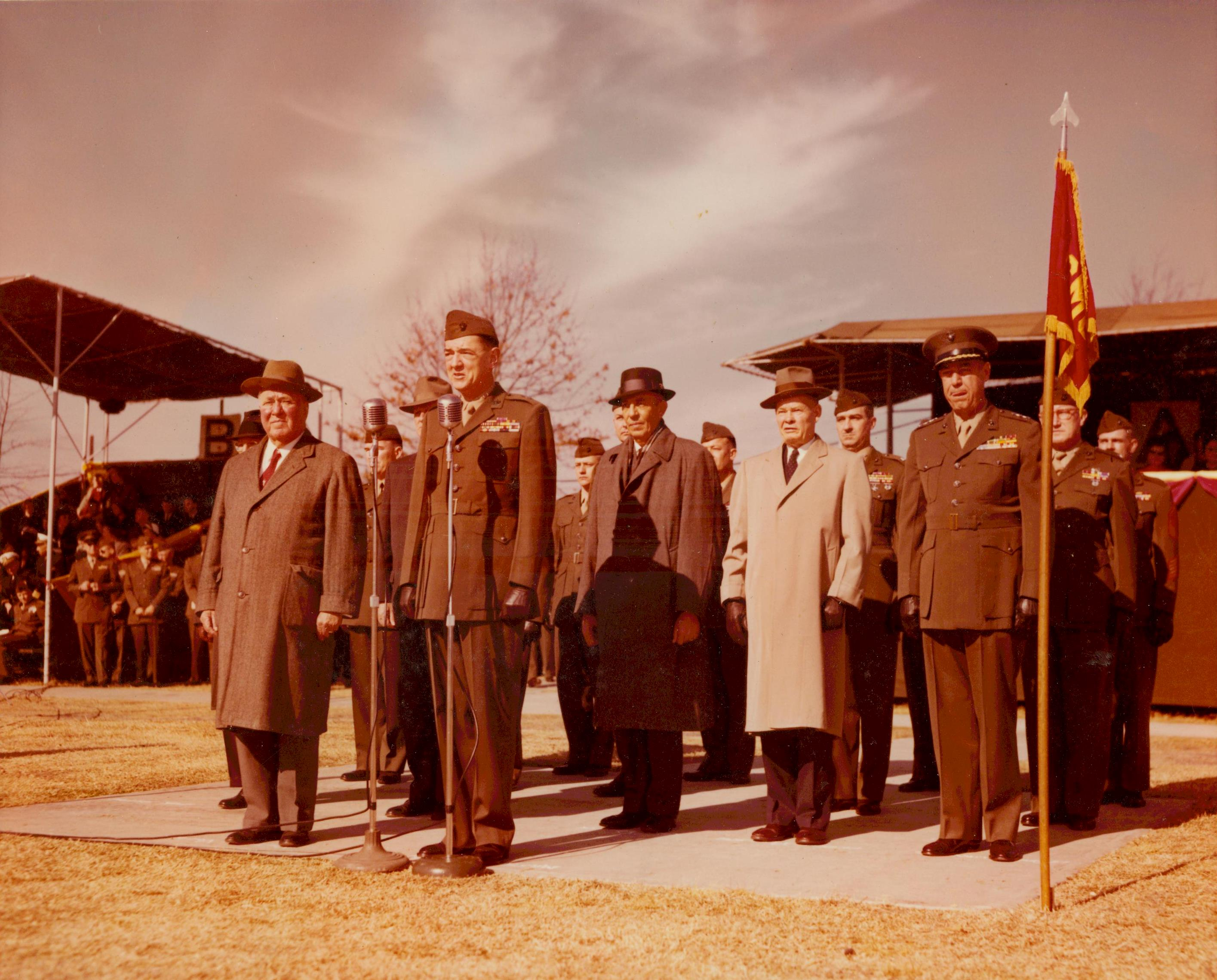 From the Lewis B. Puller Collection (COLL/794) at the Marine Corps Archives and Special Collections OFFICIAL USMC PHOTOGRAPH